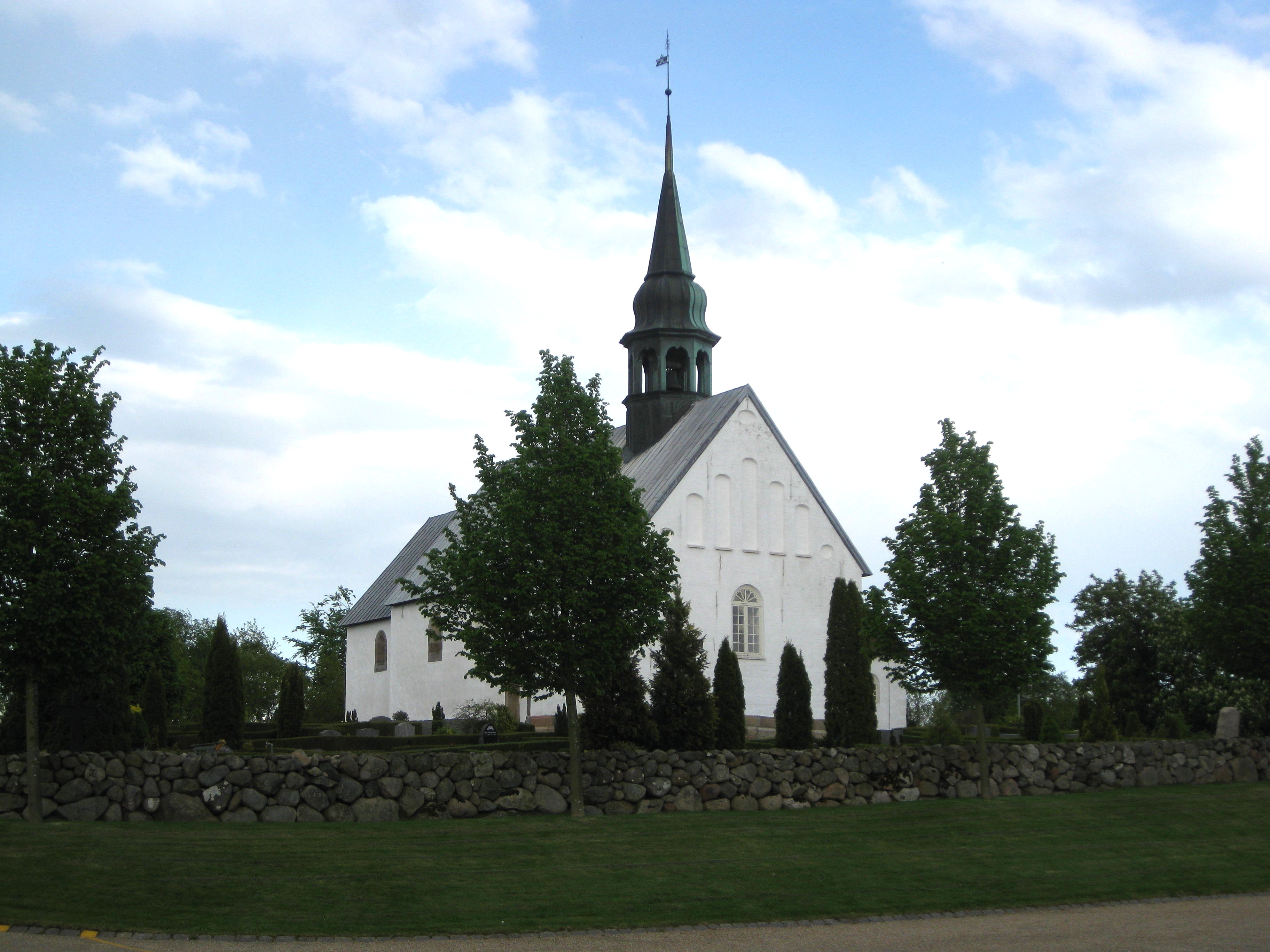 The church "Viuf Kirke" in the village "Viuf" north of Kolding. The village is located in South-Central Jutland, Denmark.